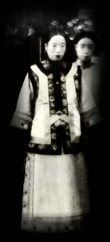 Photograph of the Qing Dynasty Empress Longyu